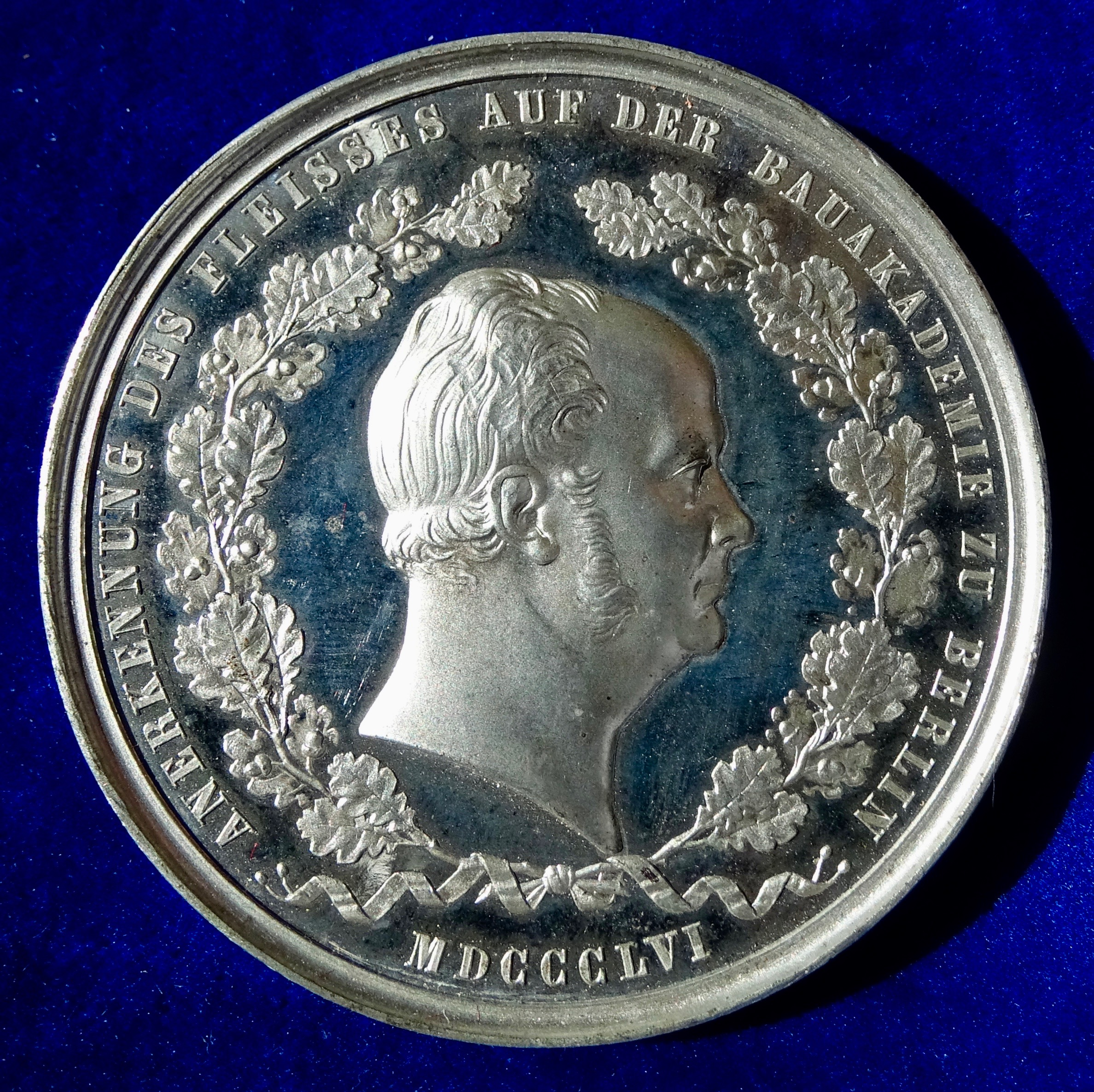 Prussia 1856, Award Medal for Students of today's Technical University Berlin. Sn- Test Strike. Pewter medallion, d. = 56 mm. Friedrich Wilhelm IV, King of Prussia, 1840 - 1861 Head r. within wreath, around: "FÜR ERFOLGREICHEN FLEISS AUF DER BAUAKADEMIE ZU BERLIN MDCCCLVI"/ The at r. seating Borussia pointing a wreath to an at l. standing student with a design of a locomotive in his l. hand. Sommer K 129 var.; Pniower 627 (Cu). Condition: Almost UNCIRCULATED.